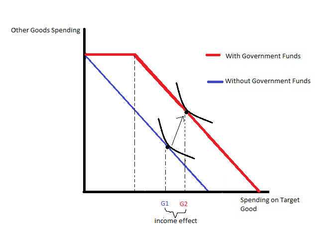 This is a graph depicting possible effects of categorical grants.